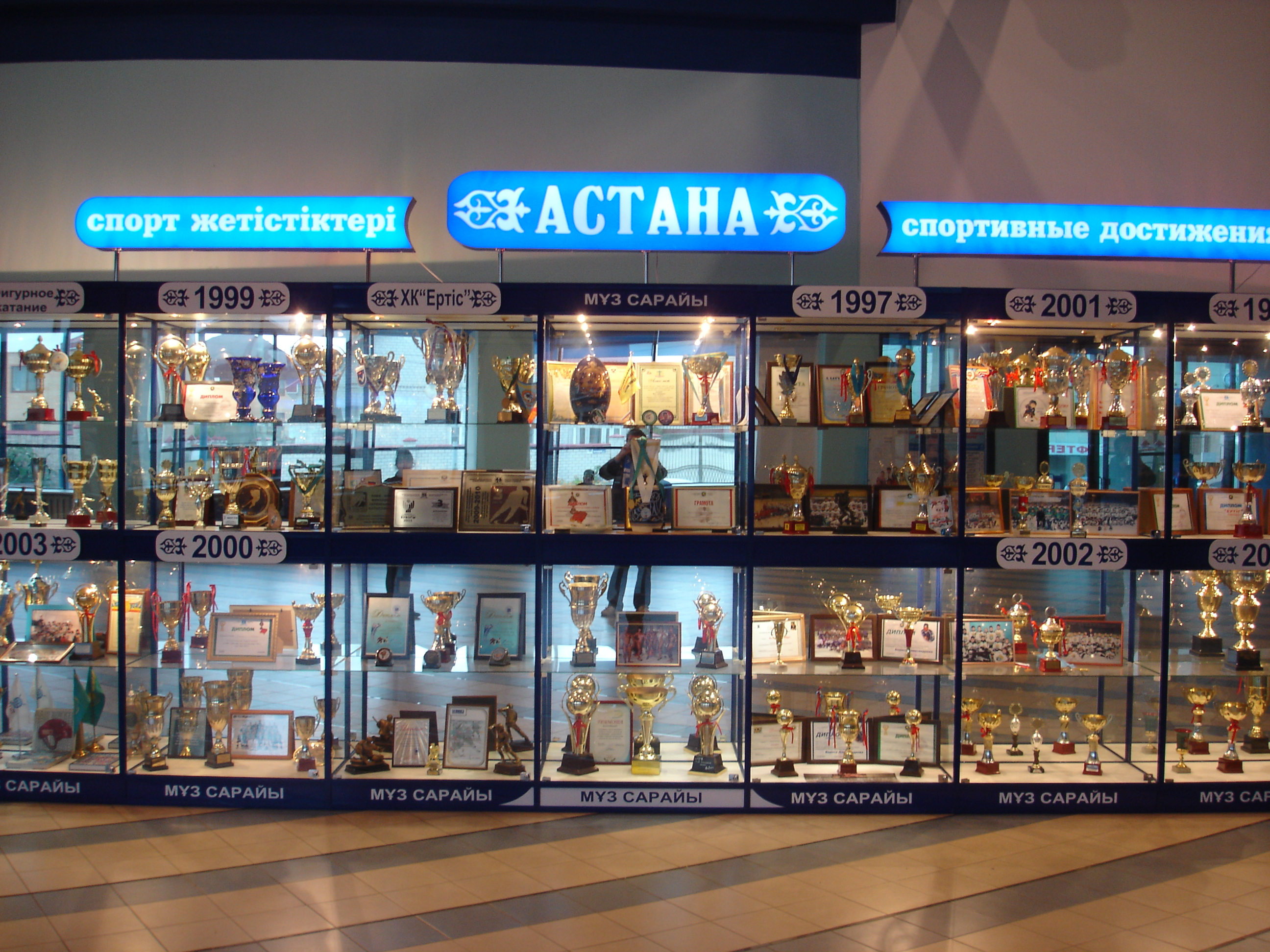 Ice hockey stadium Astana, Pavlodar, Kazakhstan. The museum wall with the cups won by Yertis team.